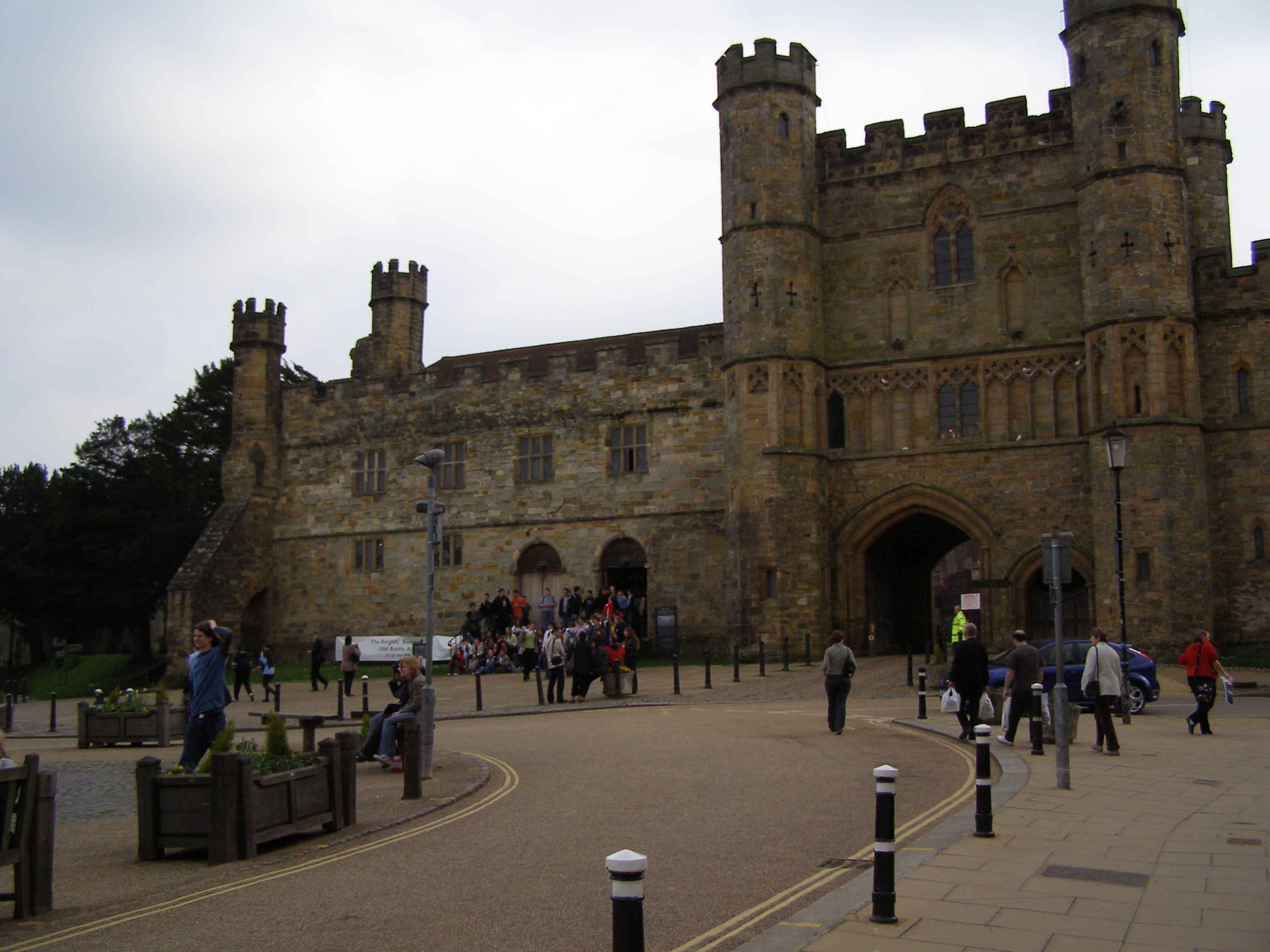 The front of Battle Abbey, seen from the Green